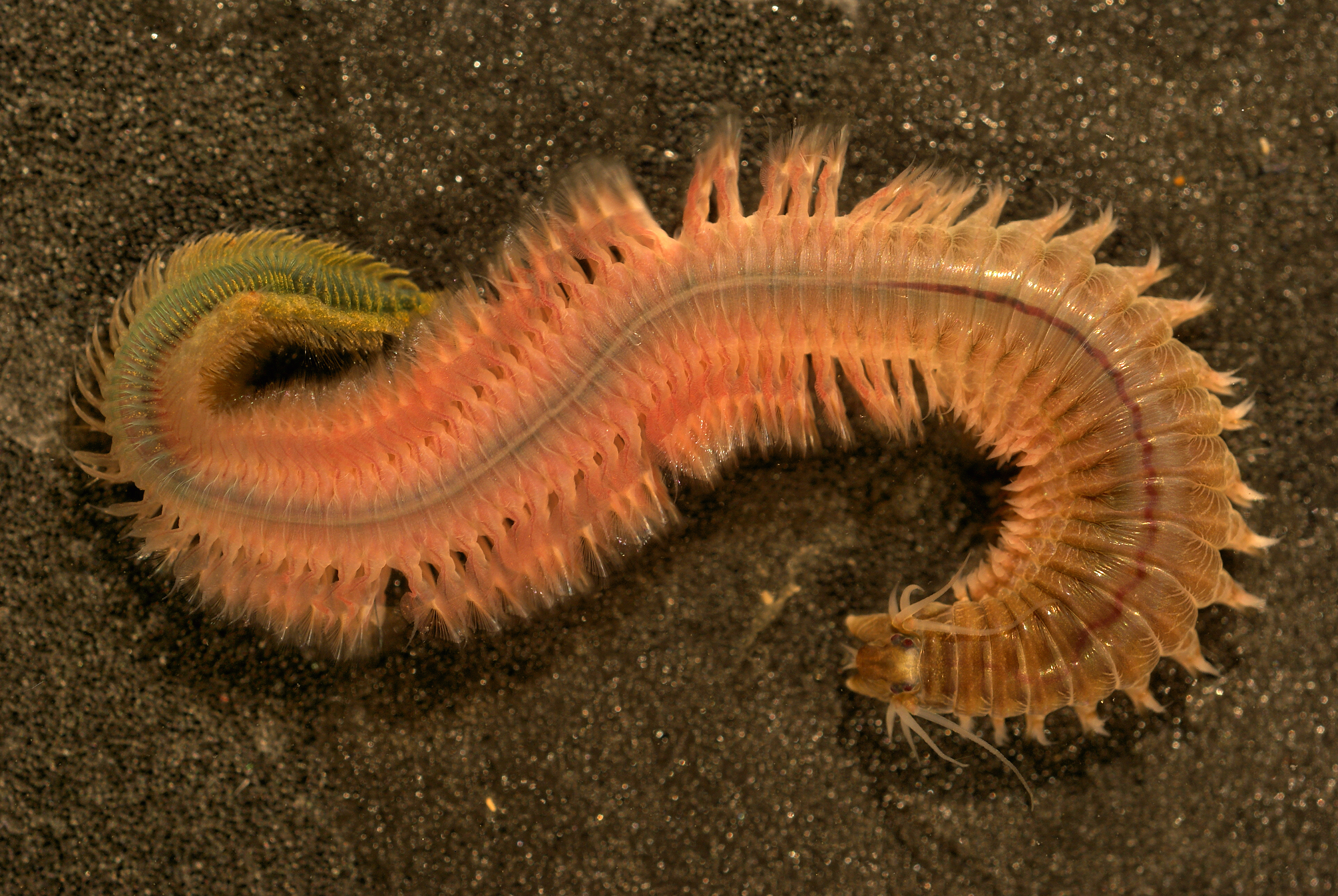 Epitoke form from de Spuikom, Oostende - Belgium